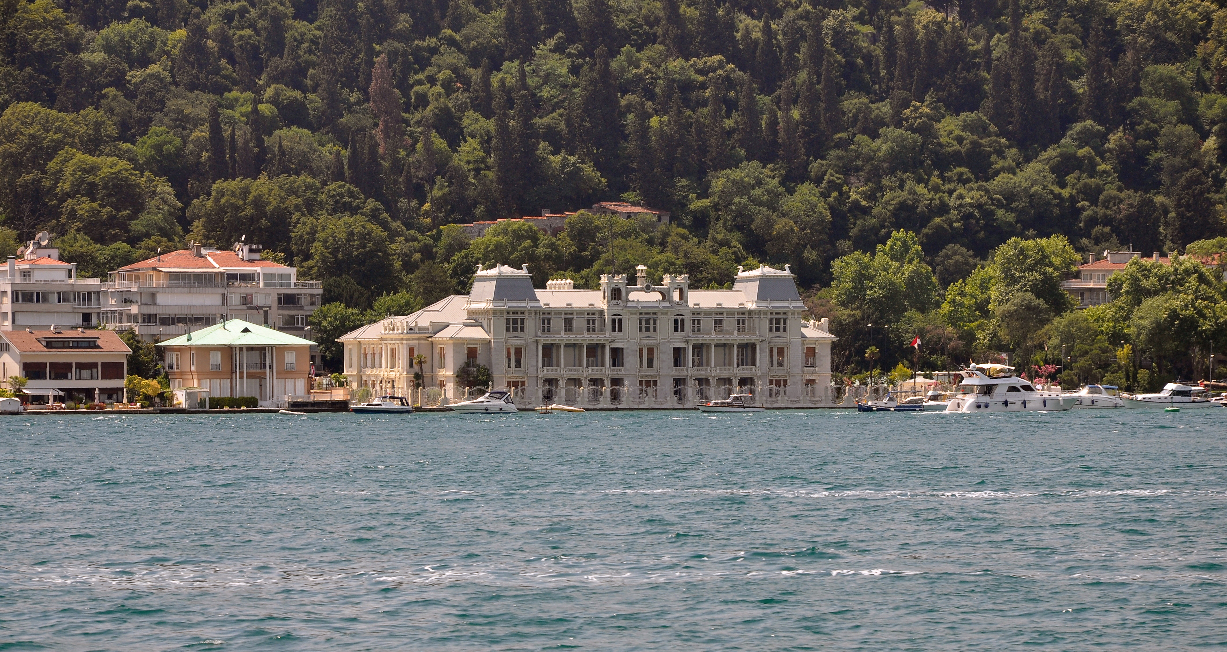 Âli Pasa Yalısı (Hidiva Sarayı), Egyptian Consulate in Istanbul, Bebek district, Turkey. This Yalı was built in Rococo style with a swathe of art nouveau and it was gifted in 1894 by the Sultan to the Khedive, egyptian royal family.